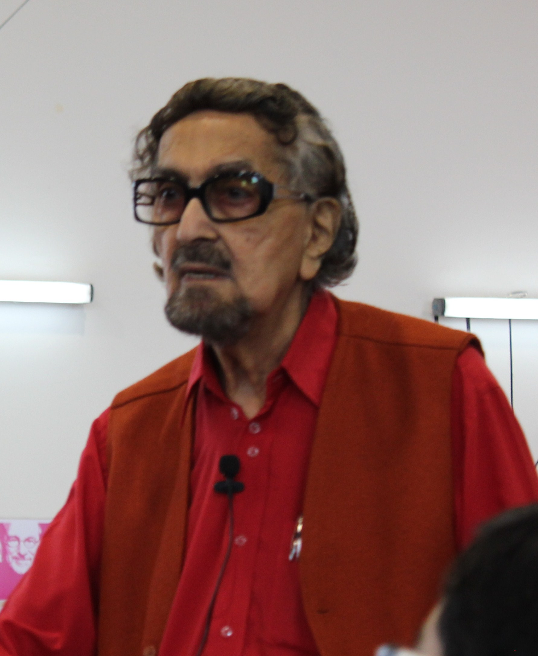 Alyque Padamsee at Annual Business Confrence at Goa Institute of Management